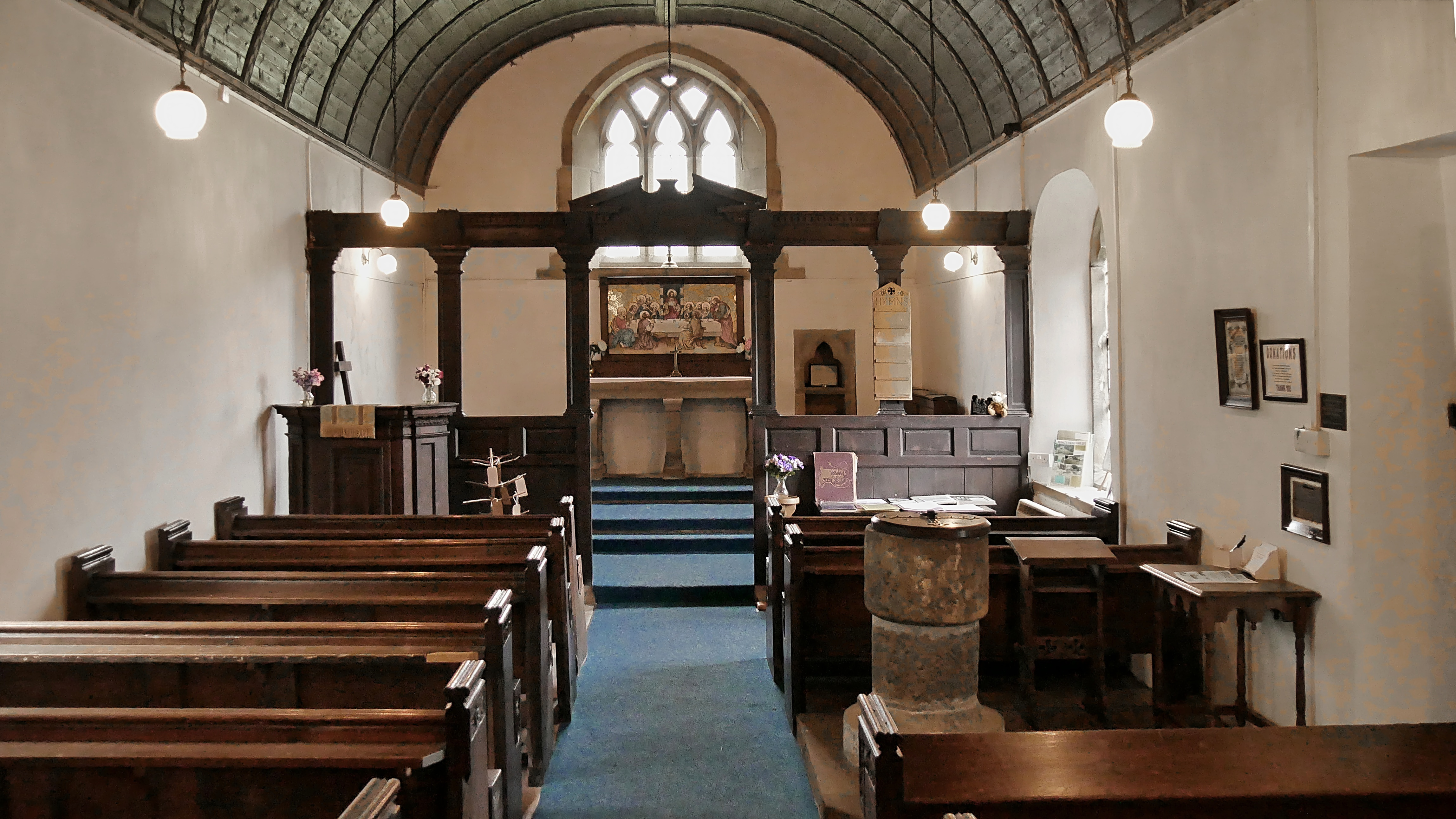 St Nicholas church, Bransdale, Norh Yorkshire Moors